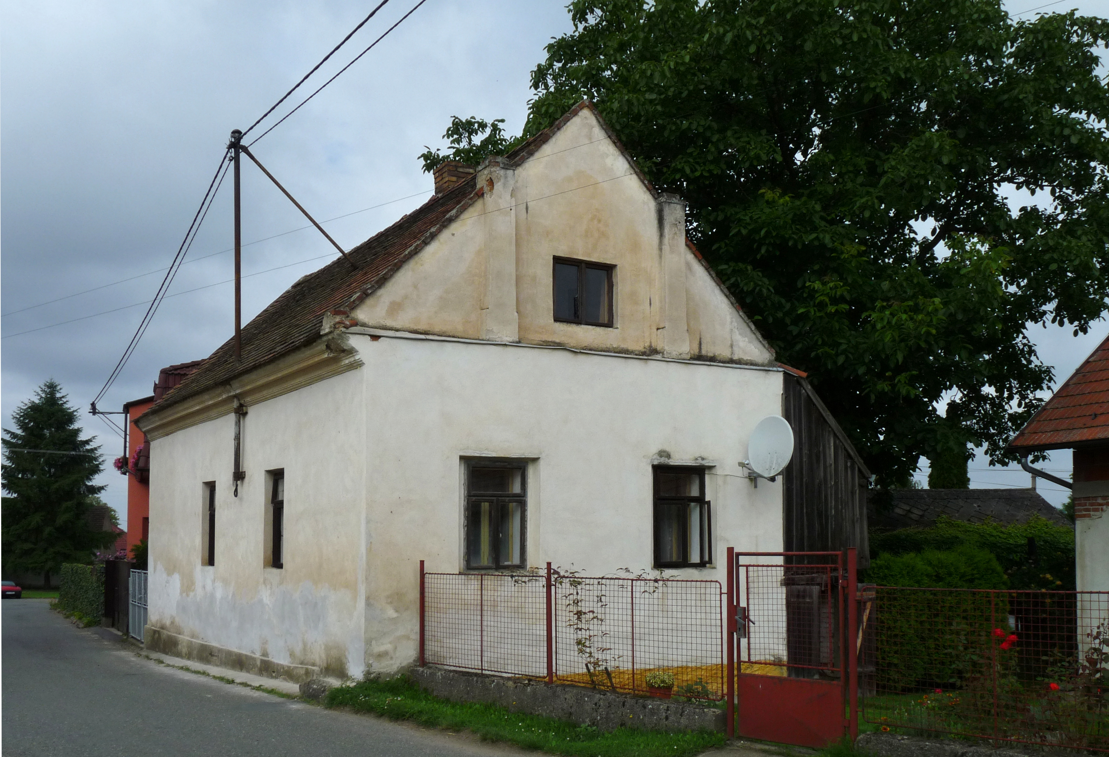 Former synagogue in Klučenice, Příbram District, Central Bohemian Region, Czech Republic.